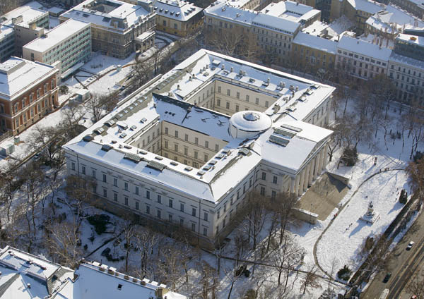 Palota negyed, Hungary, Budapest, aerial photography, disrtict VIII